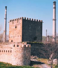 San Martín de Muñatones castle, and Petronor chimneys